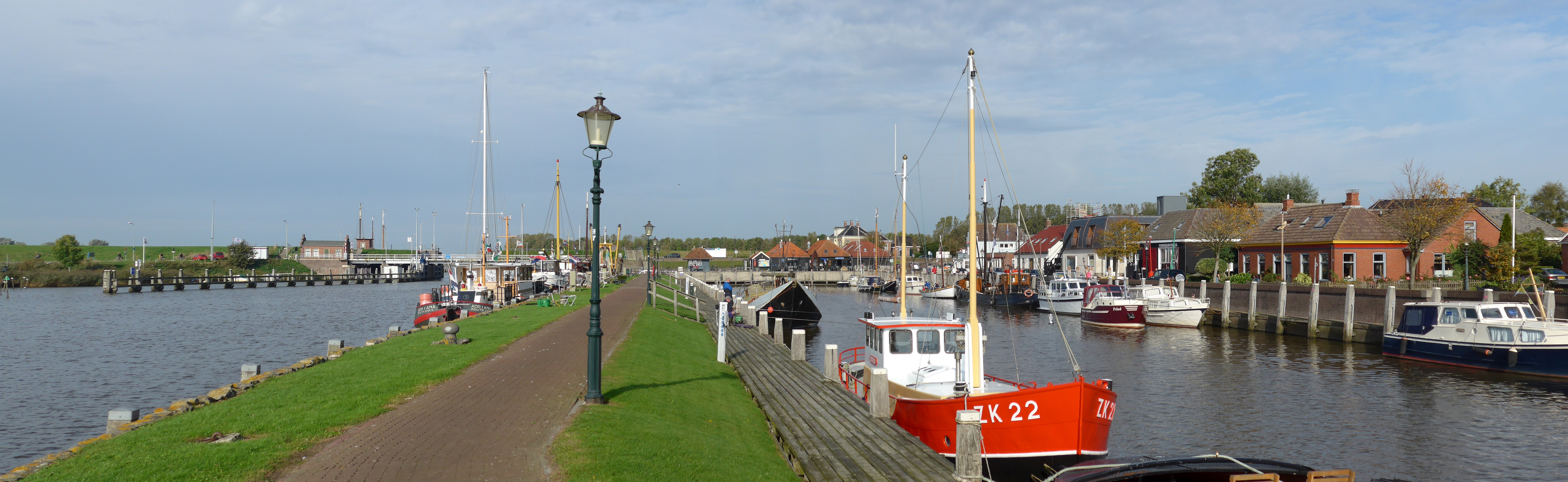 The inner harbour of Zoutkamp, a village in the Dutch province of Groningen.